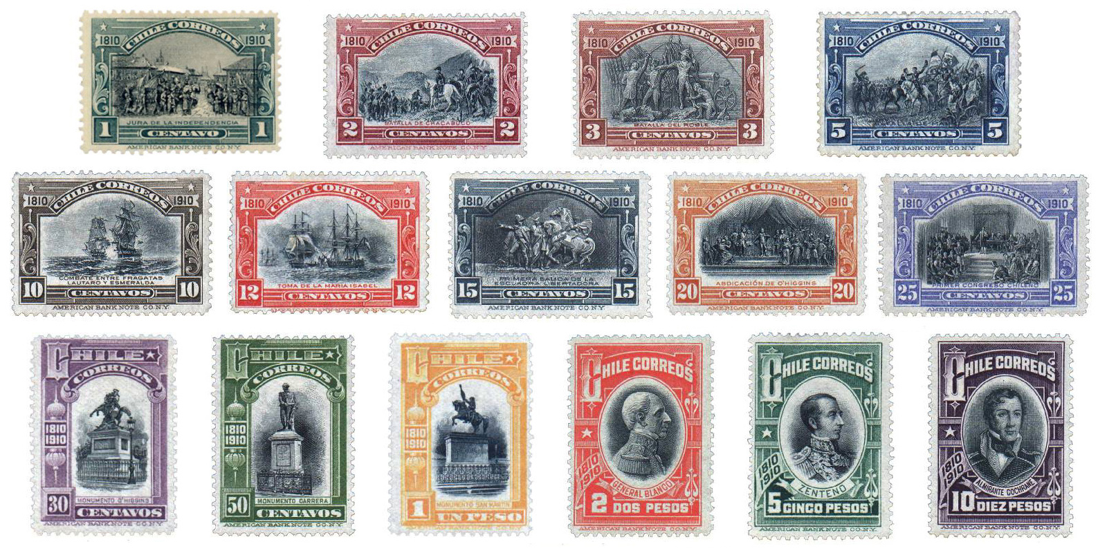 Stamps of Chile, Centennial commemorative series, issued 1910. Photograph from the personal collection by the user, january 2010. Licence : Public Domain.